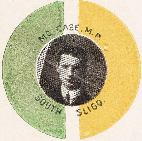 Photograph of Alec McCabe from a 1918 piece of Sinn Féin election material